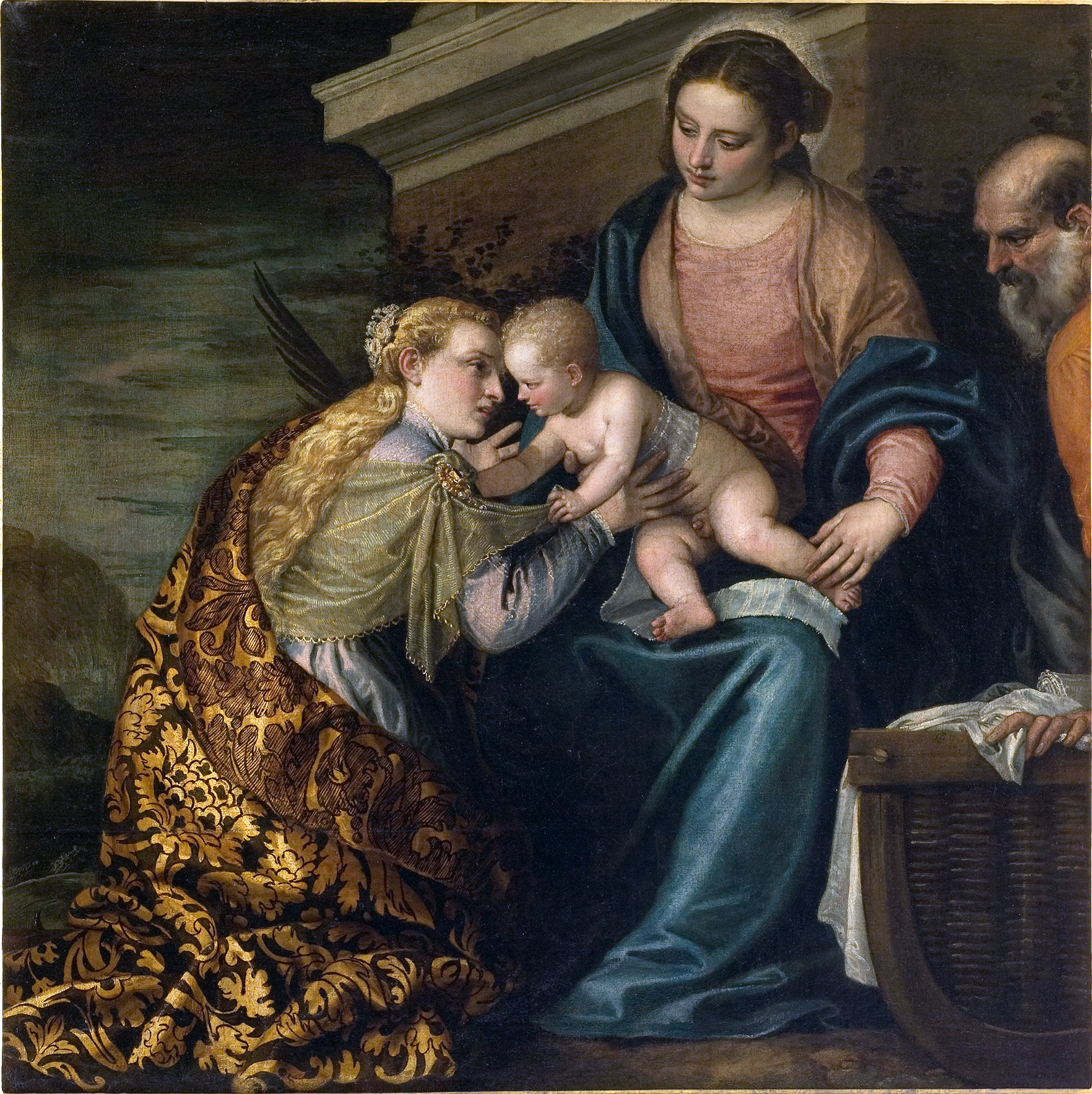 Restored recently by the Musée Fabre. Catherine was famed for her beauty and learning. She is seen kneeling to the baby Jesus.